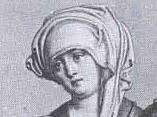 Johanna Sophia of Bavaria